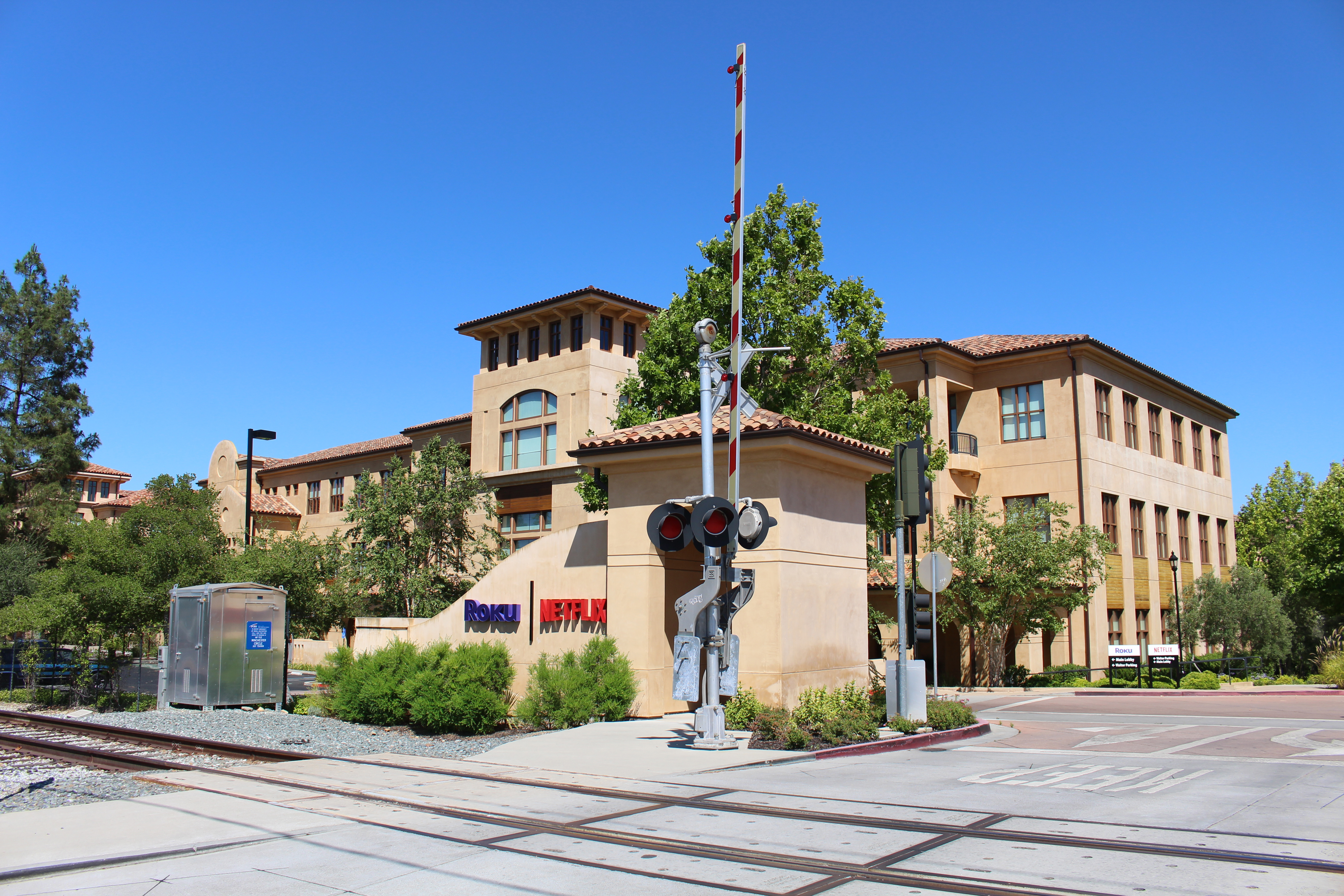 This office building at 100 Winchester Circle in Los Gatos, California has been home to Netflix headquarters since the company moved from Sunnyvale. In 2016, Netflix subleased this office building to Roku but continued to maintain its headquarters address for legal purposes at this location. Photographed by user Coolcaesar on 14 July 2018.